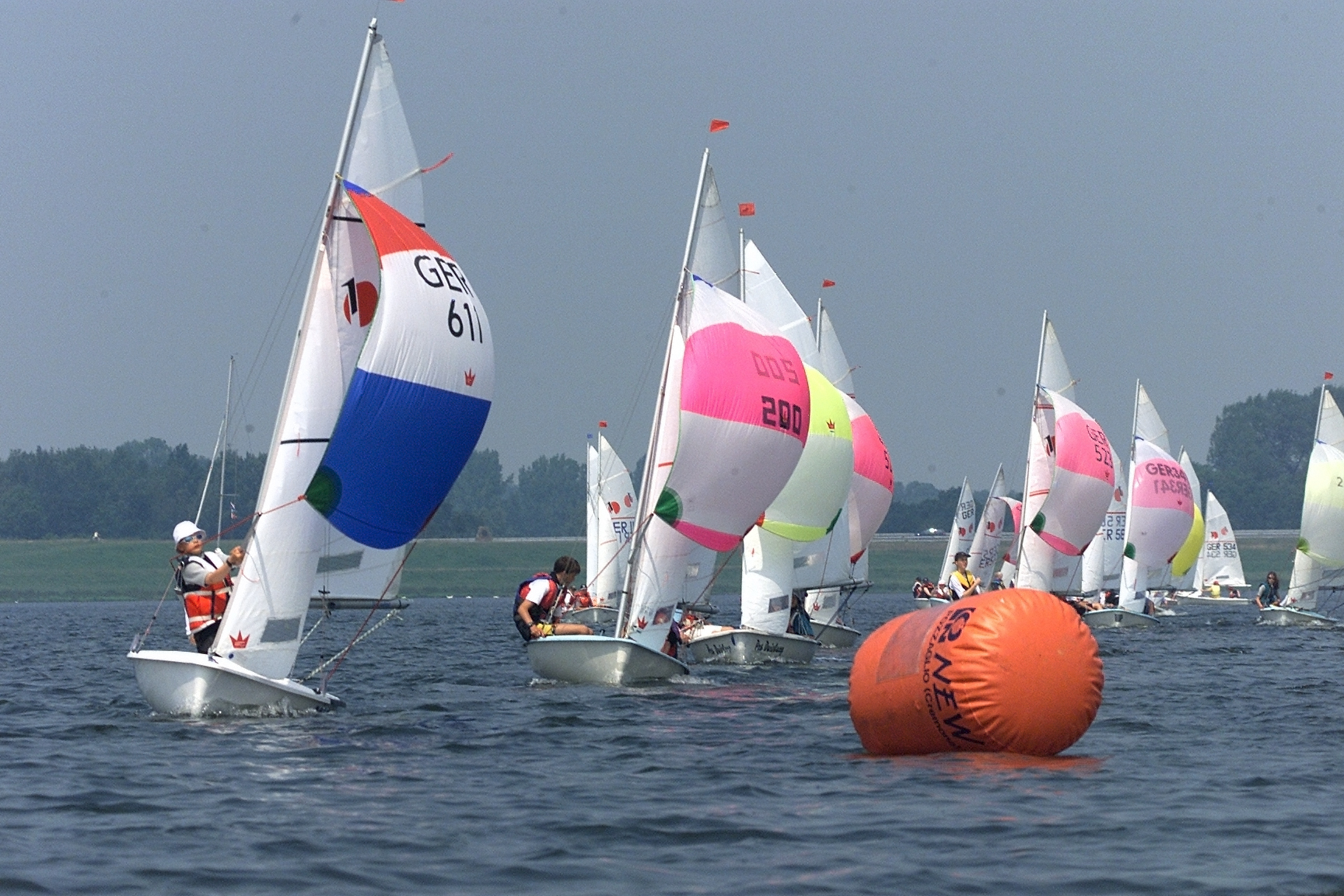 Alfsee: sailing race